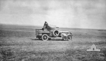 AWM caption : An Australian observer in an armoured car used in the 2nd Battle of Gaza.